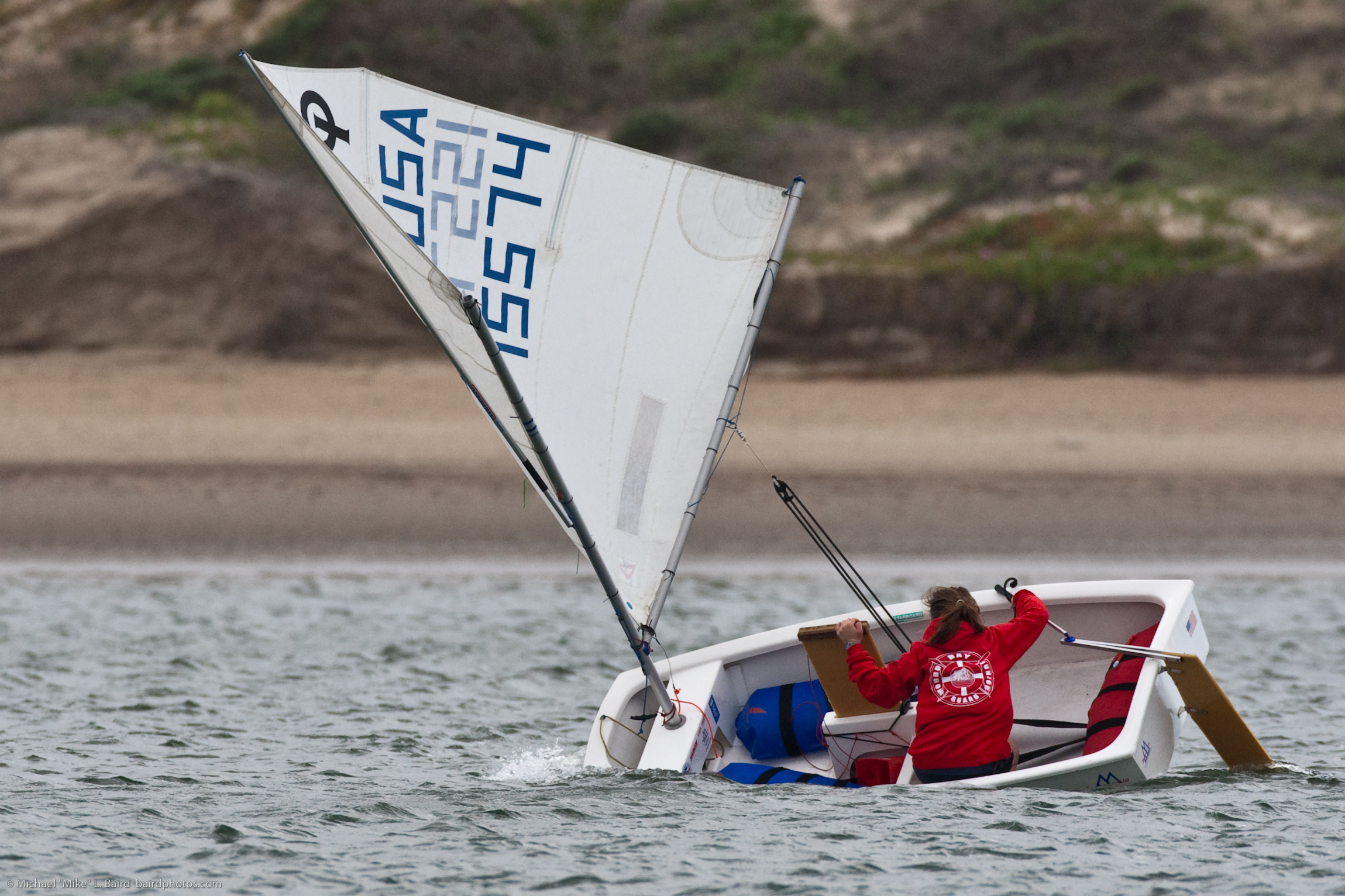 Heeling to windward: A young sailor in an optimist dinghy at the Morro Bay Yacht Club Junior Lifeguard Sailboat Race in Morro Bay, California (USA), heels to windward (apparently running or on a broad reach) to optimize speed; due to a sudden gust, she currently bears away to avoid capsizing. (The lifted centerboard adds to the risk of capsizing by elevating the center of gravity.) Photo by Michael "Mike" L. Baird, mike [at} mikebaird d o t com, ; Canon 1D Mark III, Canon 600mm f/4.0 Lens with Circular Polarizer on Gitzo GZGT5540LS tripod with Wimberley Gimbal Head II on leveling base.